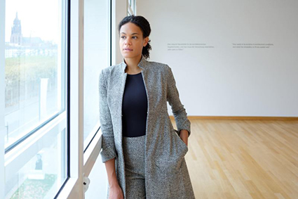 Portrait of german art historian, art curator and author Mahret Ifeoma Kupka